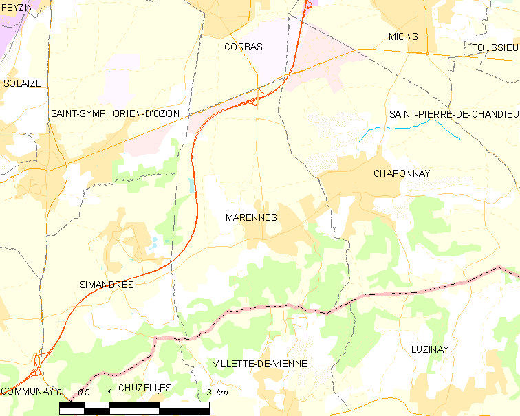 Map of French municipality